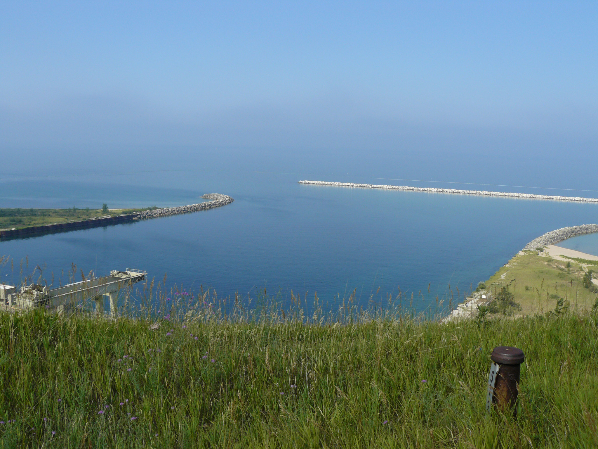 Ludington Hydro Plant, Lake Michigan. Credit: D. O'Keefe, Michigan Sea Grant